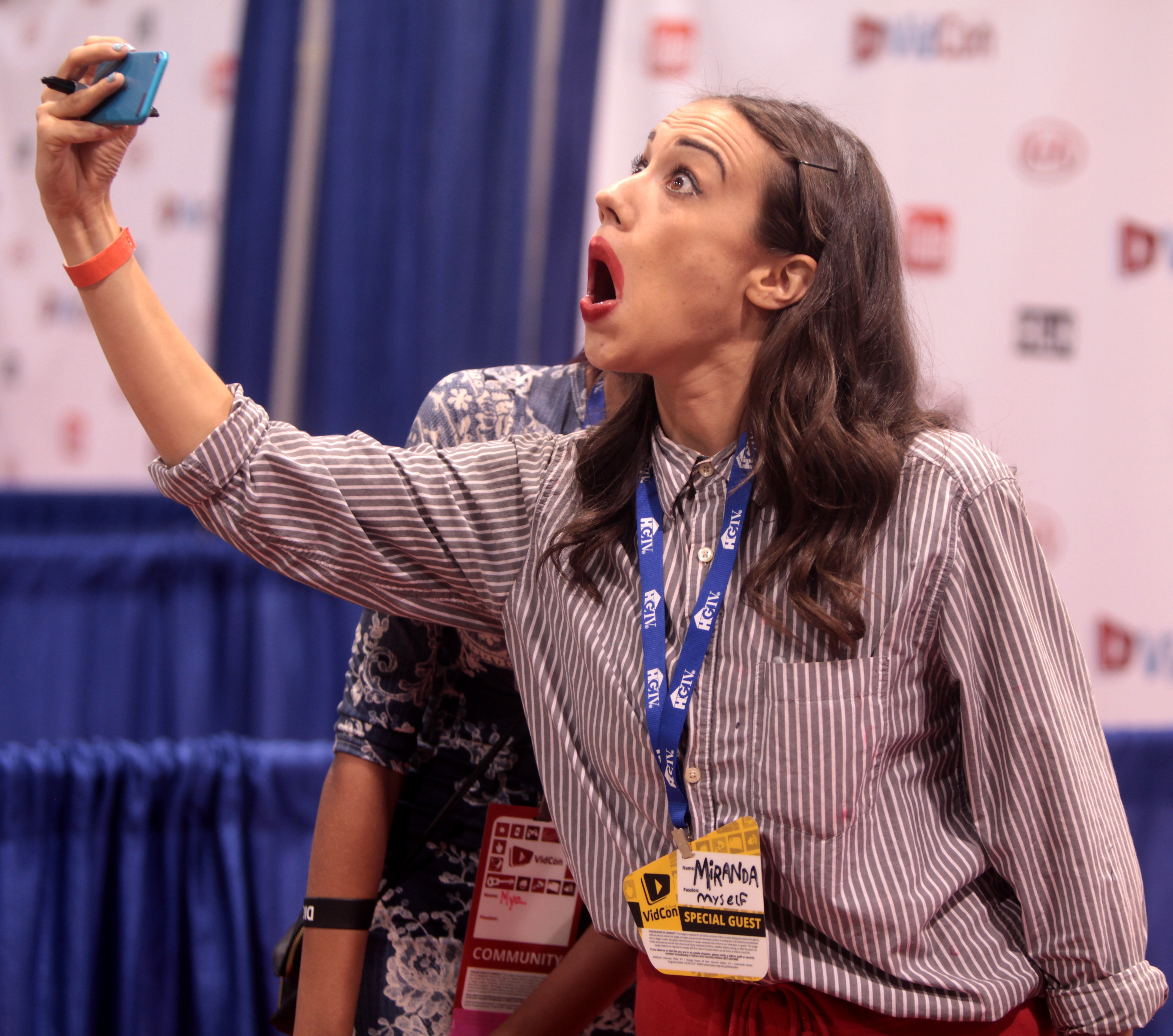 Miranda Sings speaking at the 2014 VidCon on June 28, 2014.